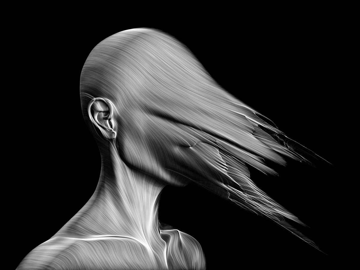 "Untitled (monsters)", 2010, digital image on paper, Marina Núñez